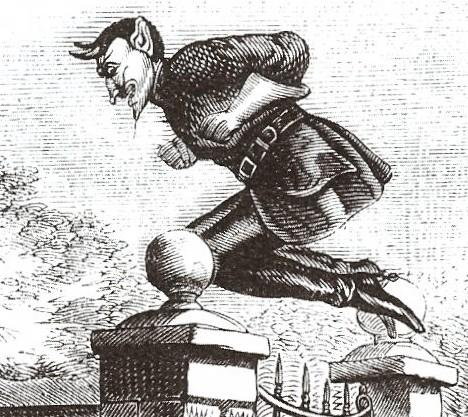 Jack the Devil in the Penny Dreadfuls Paper - 1838